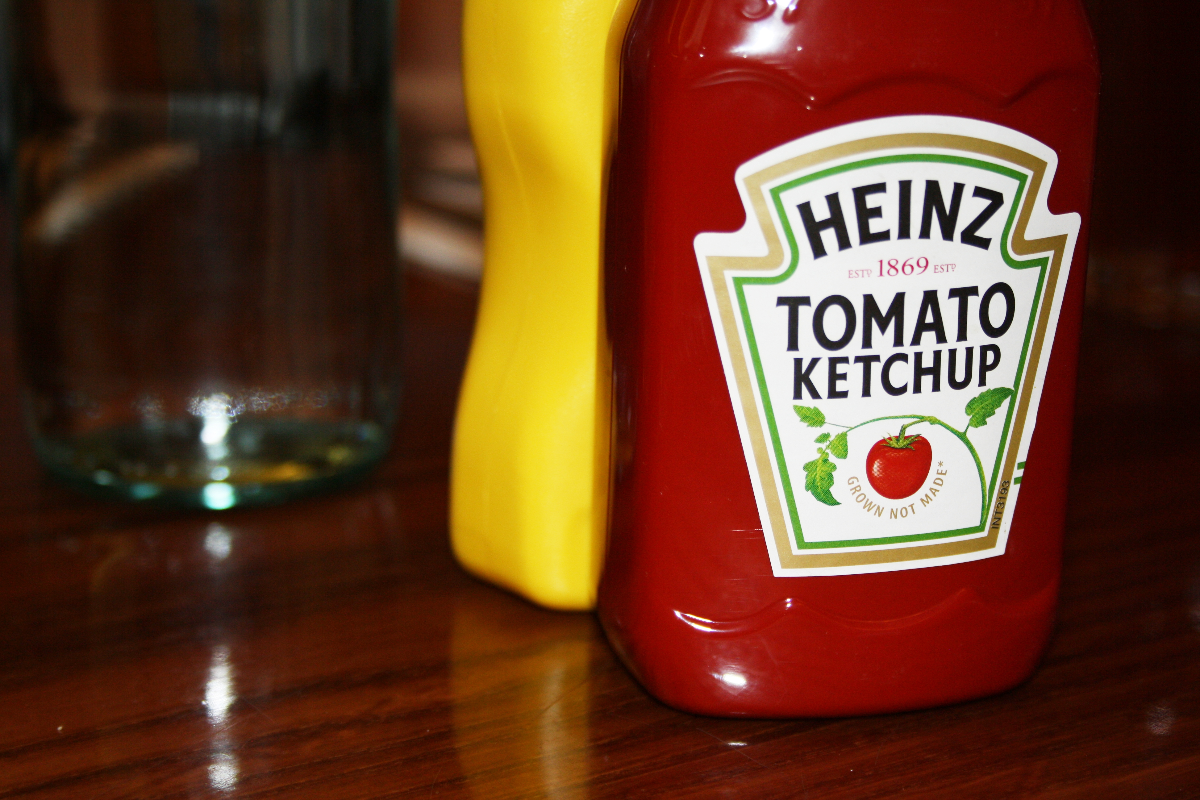 Sauces at the Hard Rock Cafe in Florence: Heinz Tomato Ketchup and French's Mustard.